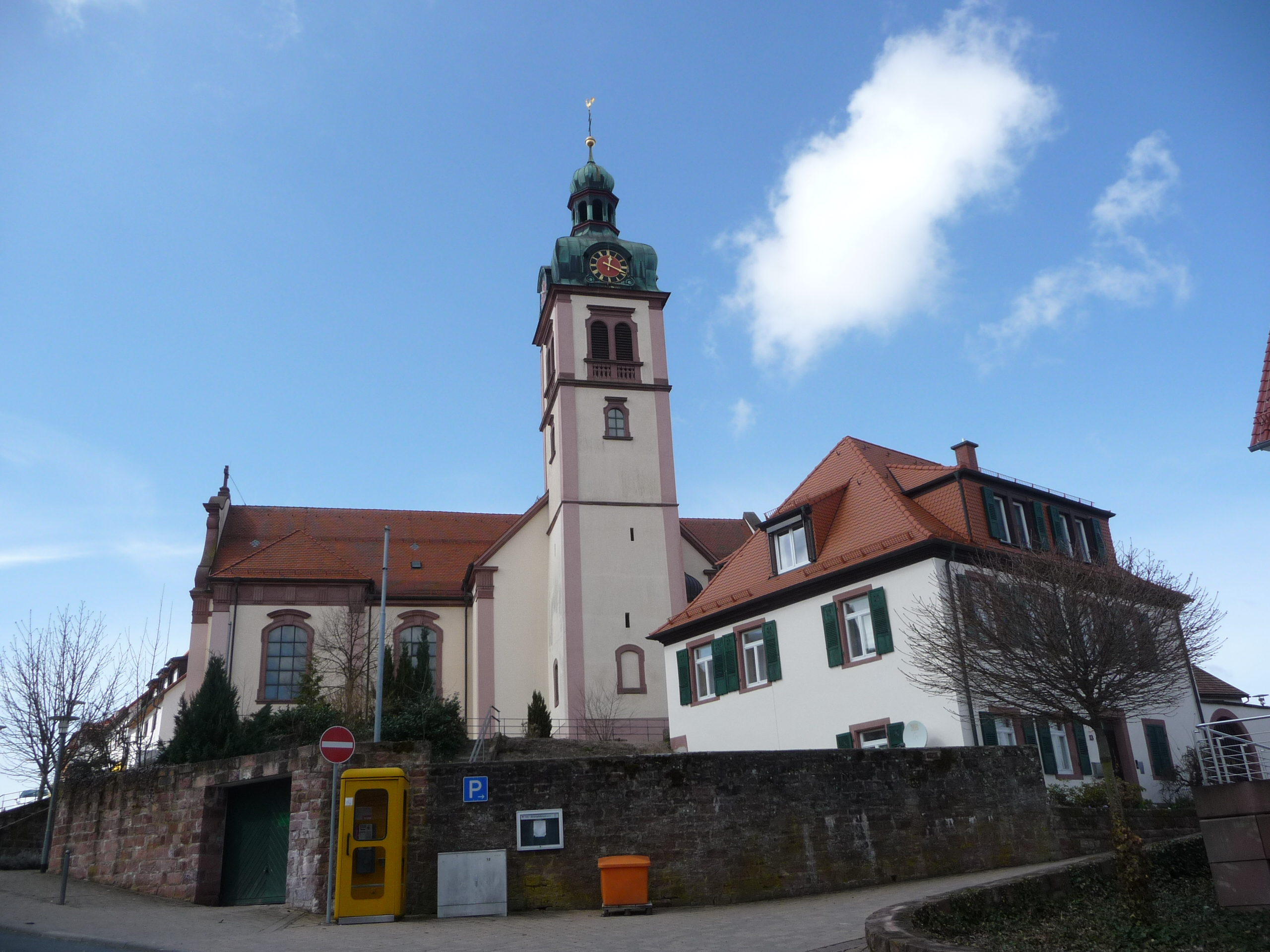 Strümpfelbrunn